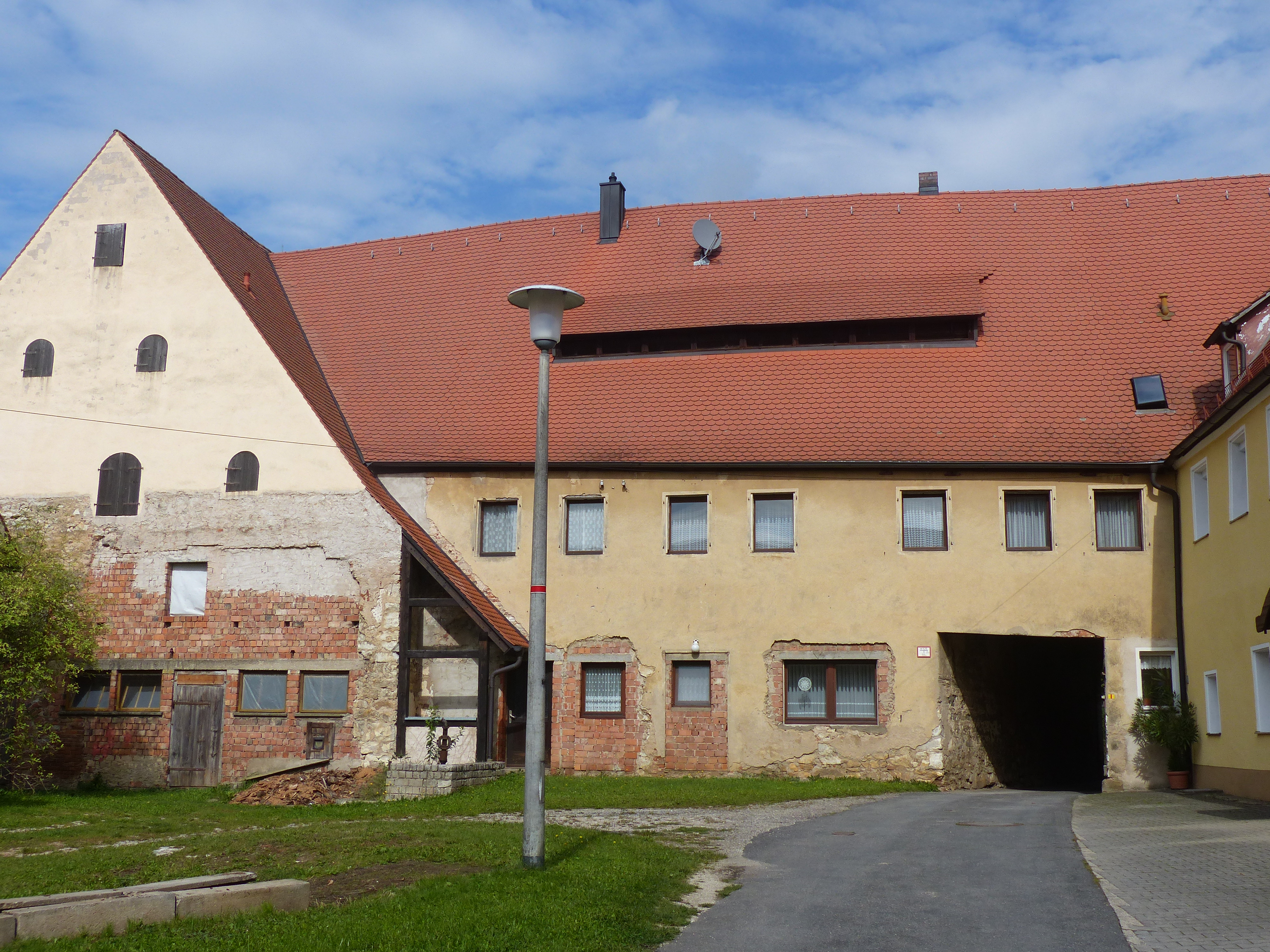 The Pflegschloss Engelthal, a former monastery farm yard, monastery nursing home and bailiwick house in the village Engelthal.